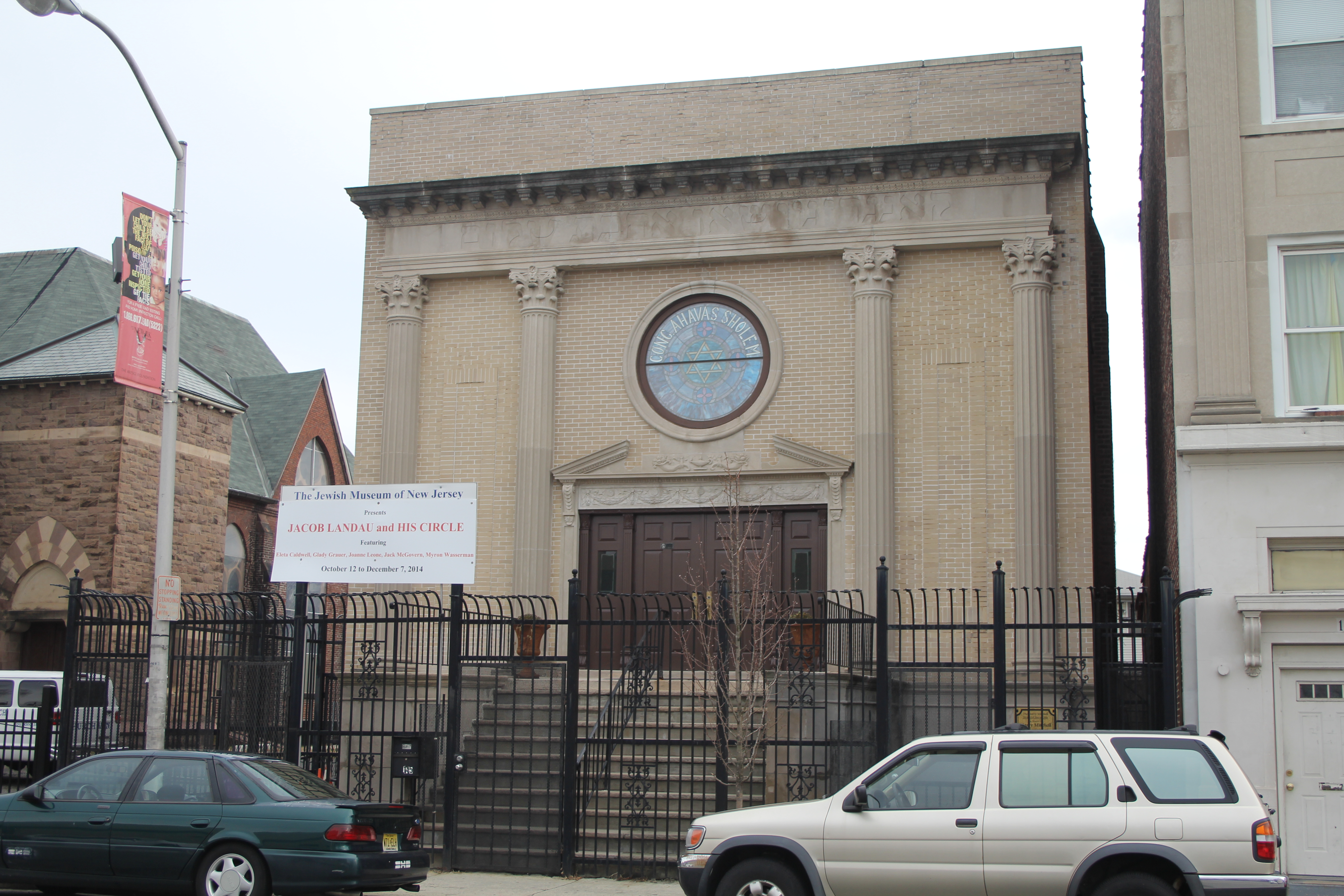 Congregation Ahavas Sholom, 145 Broadway, Newark, New Jersey. Also houses the Jewish Museum of New Jersey. Built in 1923 and listed on the National Register of Historic Places (NRIS #00001530).